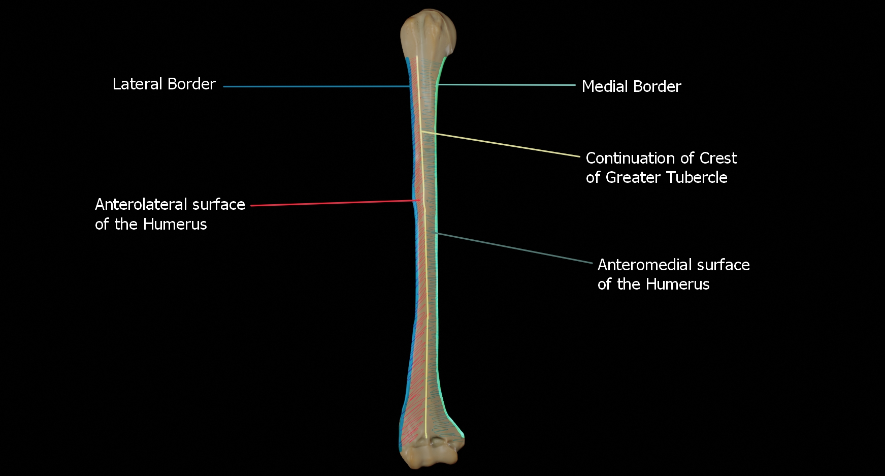 Anterior View of the humerus showing the lateral and medial borders, the anteromedial and anterolateral surface of the Humerus